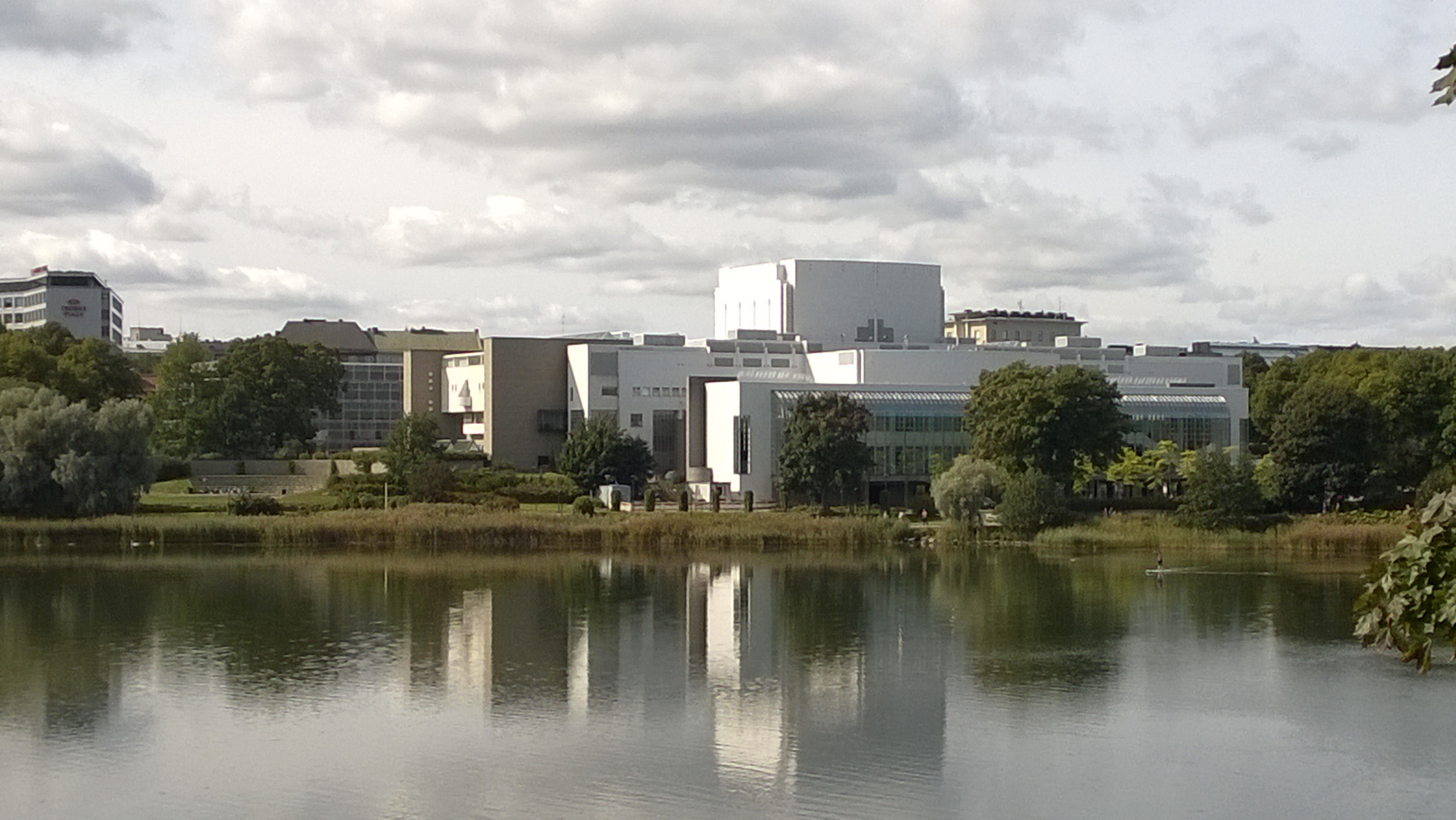 Finnish National Opera, seen from east across Töölönlahti.